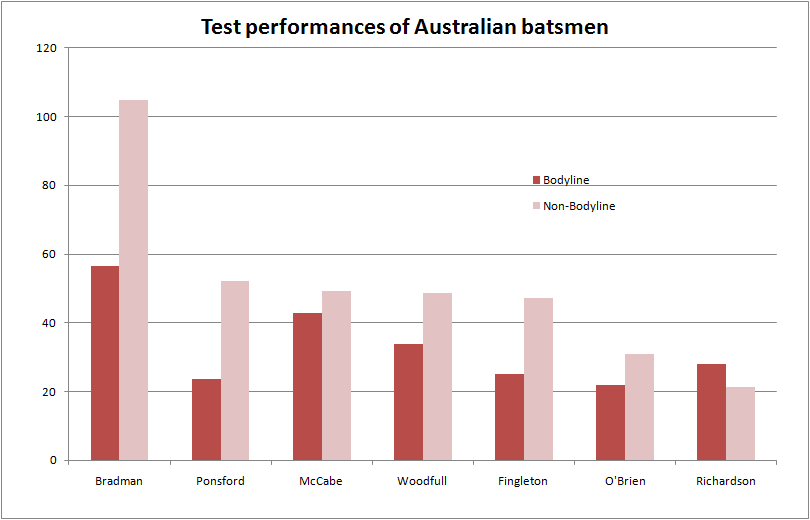 Graph of Australian batsmen's Test batting averages in Bodyline and non-Bodyline Tests.